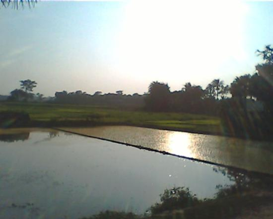 Barovatra